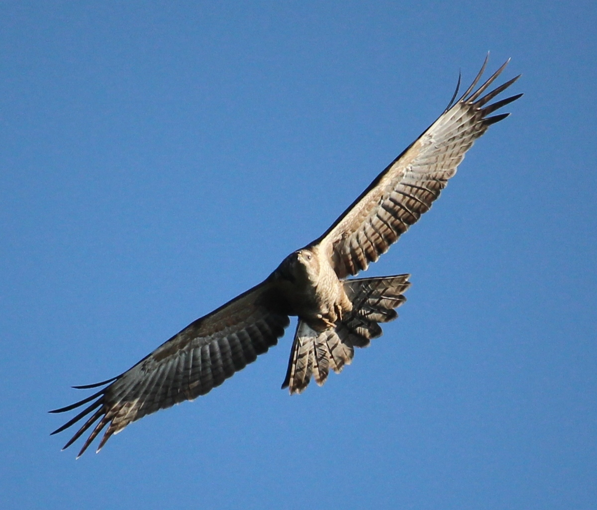 Grey-faced buzzard (Butastur indicus) in flight, in Mount Noko, Hichisō, Gifu prefecture, Japan.